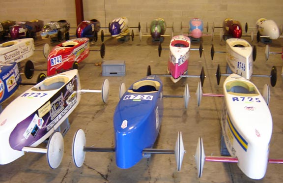 Ohio - Akron - Soap Box Derby Racers - 07-14-07 By:Mike Sharp.